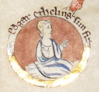 Edmund II of England and his family (Edward the Exile, Edgar the Ætheling, Saint Margaret of Scotland, Edmund , Cristina)